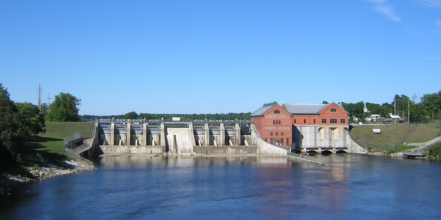 A view of the Croton Dam, a dam and powerplant complex, built 1907, on the Muskegon River in Croton Township, Newaygo County, Michigan. This image is from location C on the locator map at right, from the Croton Drive bridge across the Muskegon.